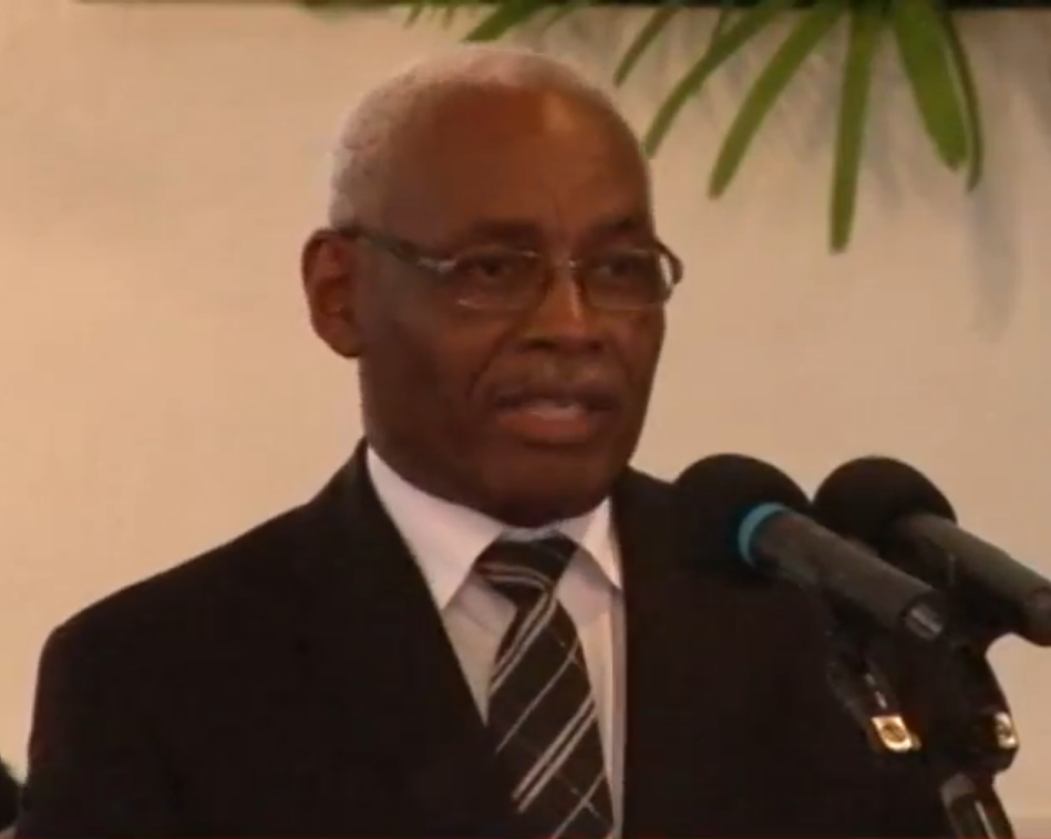 Humphrey Hildenberg, Minister of Finance of Suriname (2005-2010)